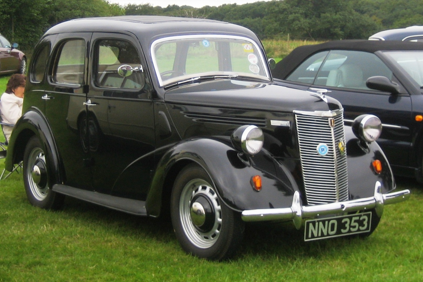 Ford Prefect at Knebworth Classic Car Show